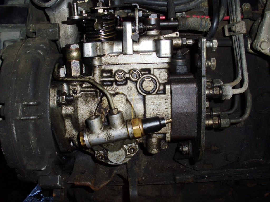 Injection pump VE Bosch 0 460 494 186